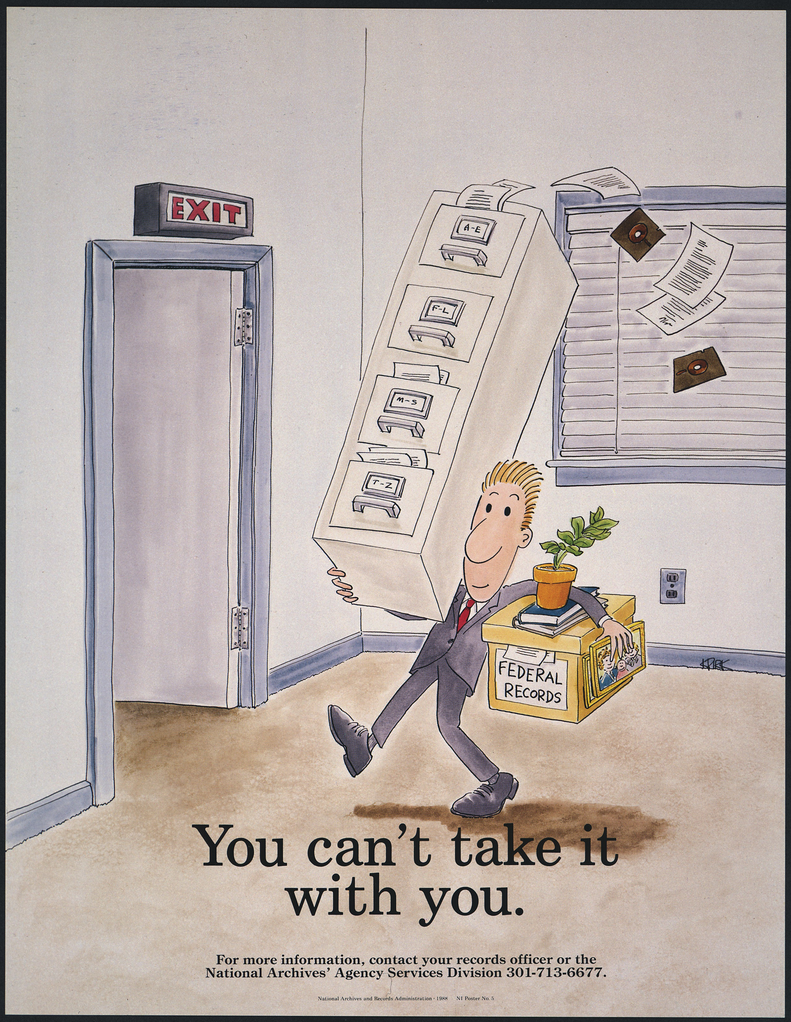 Scope and content: The National Archives and Records Administration created this poster to promote good records management practices.